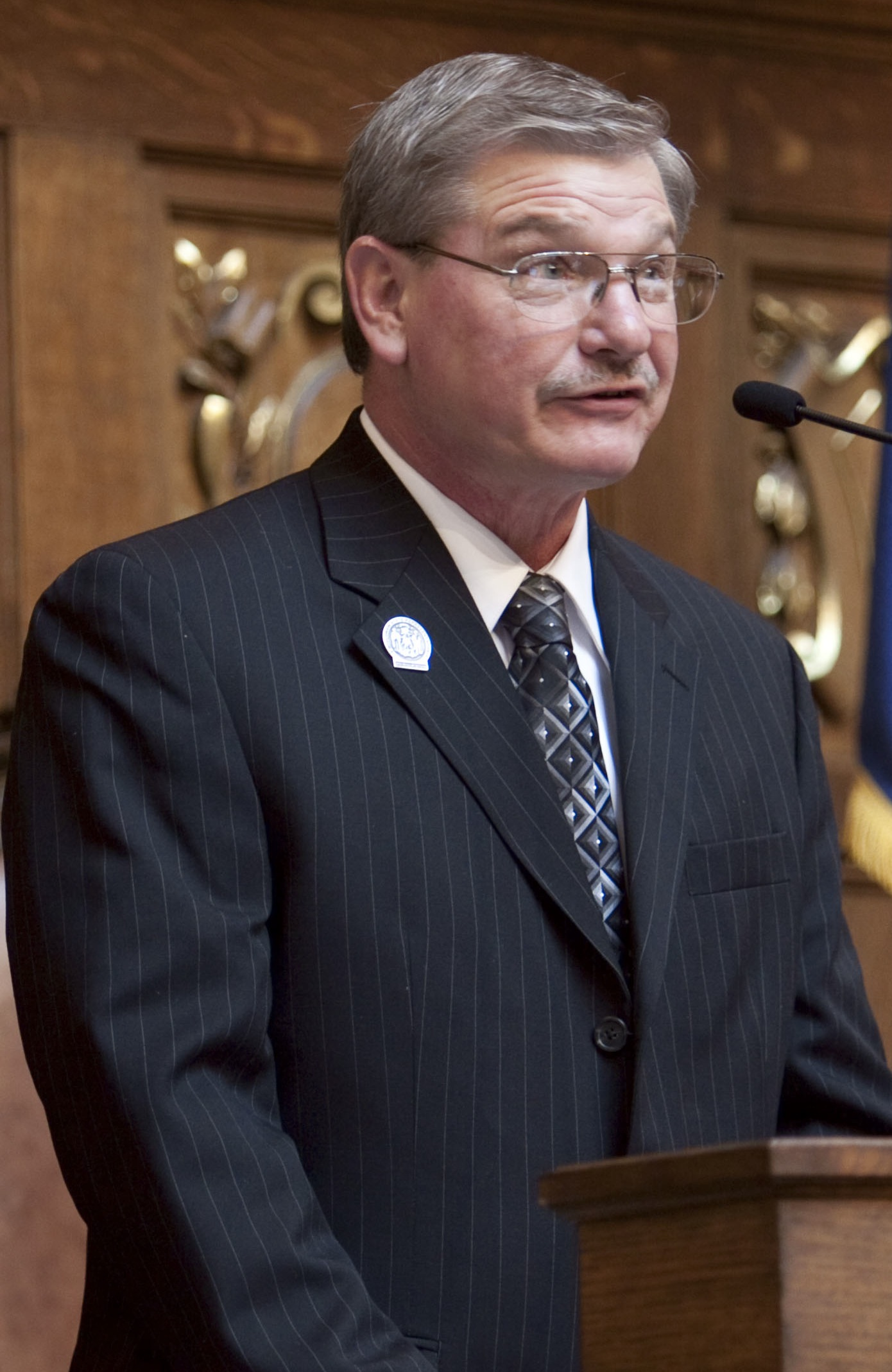 Former Wisconsin State Assemblyman Ted Zigmunt.